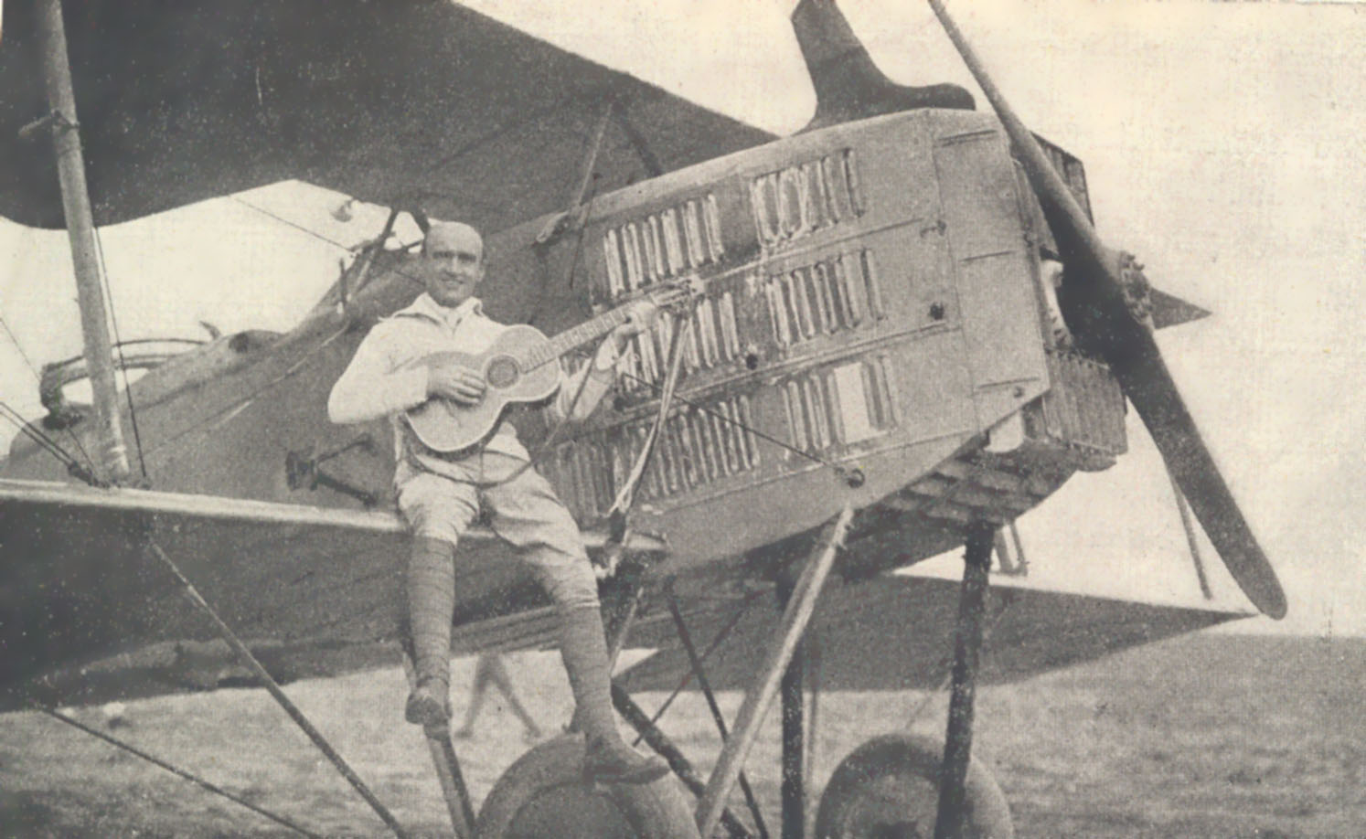 Karel Hašler, revue actor